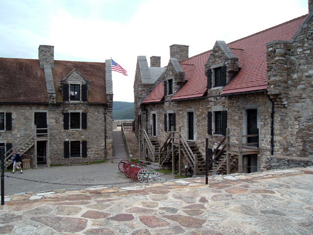 Photograph of the courtyard and restored buildings of Fort Ticonderoga.